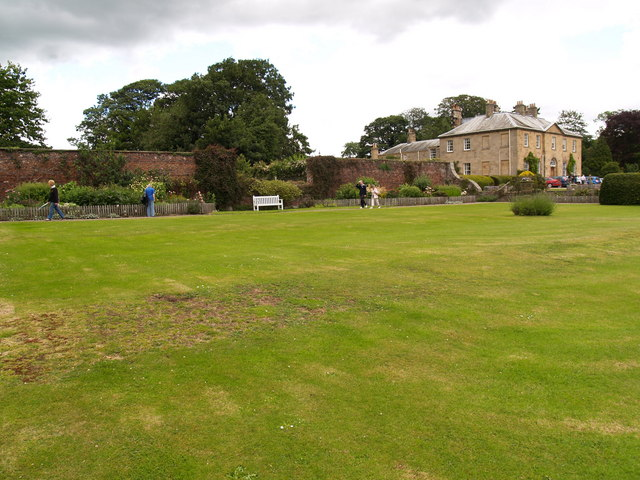 Newbrough Hall and Garden During a Red Cross Gardens Open Day.